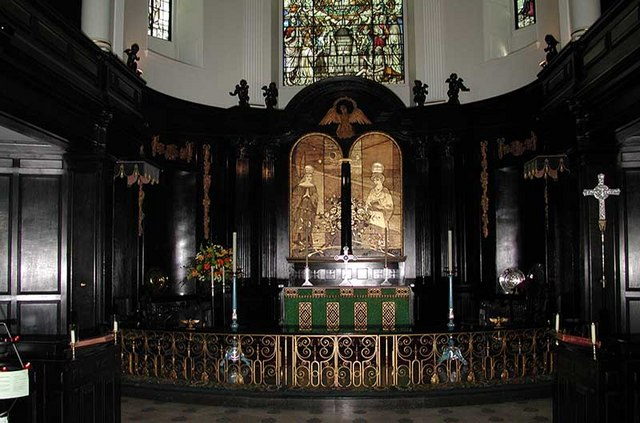 St Clement Danes Church, Strand, London WC2